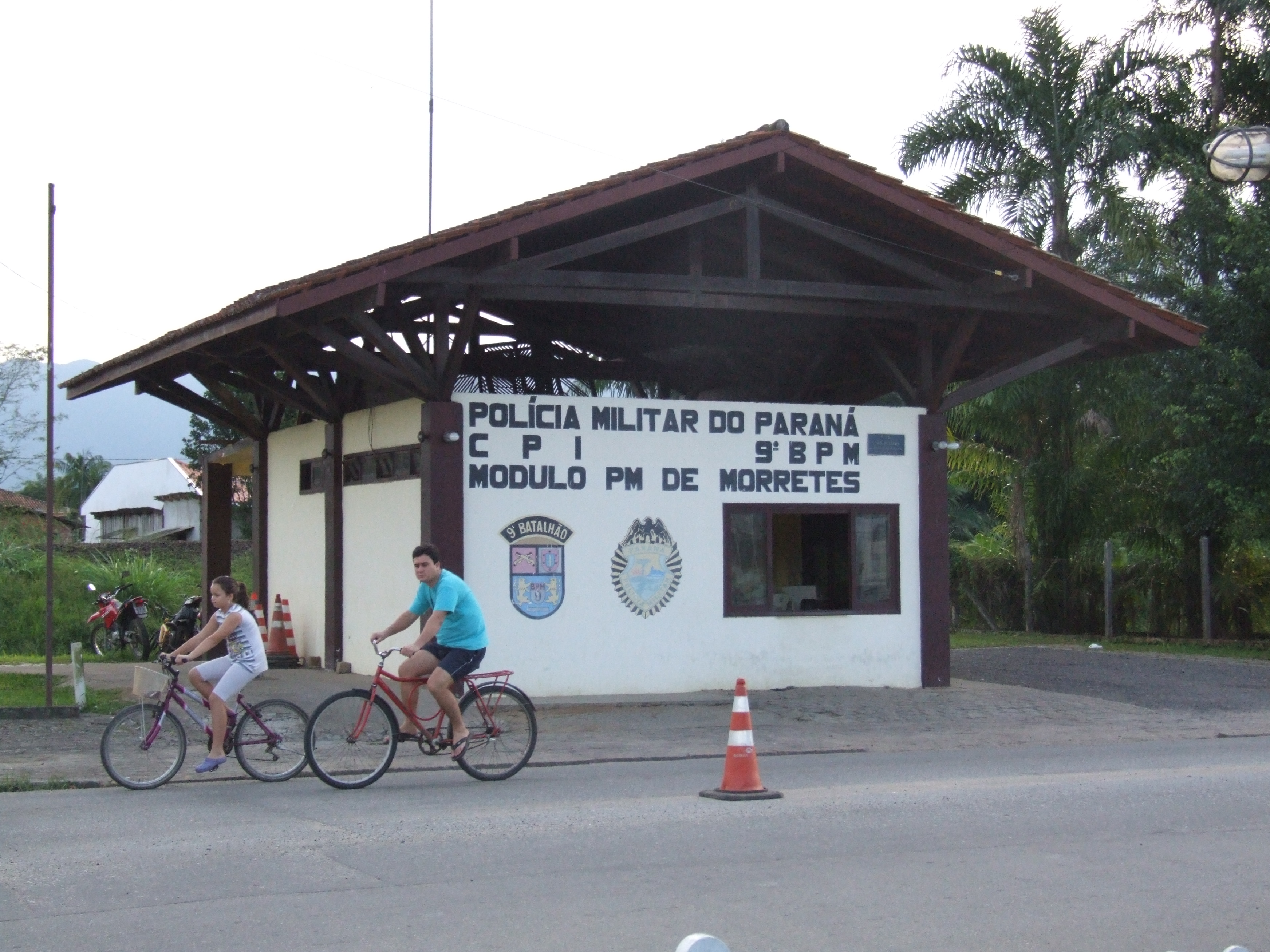 Military Police Detachment in Morretes, Paraná State, Brazil.